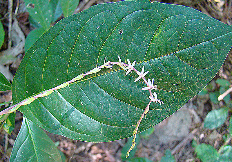 Widespread from Florida to Argentina under names such as Garlic Weed and Guine. Photo from Nicaragua. In context at